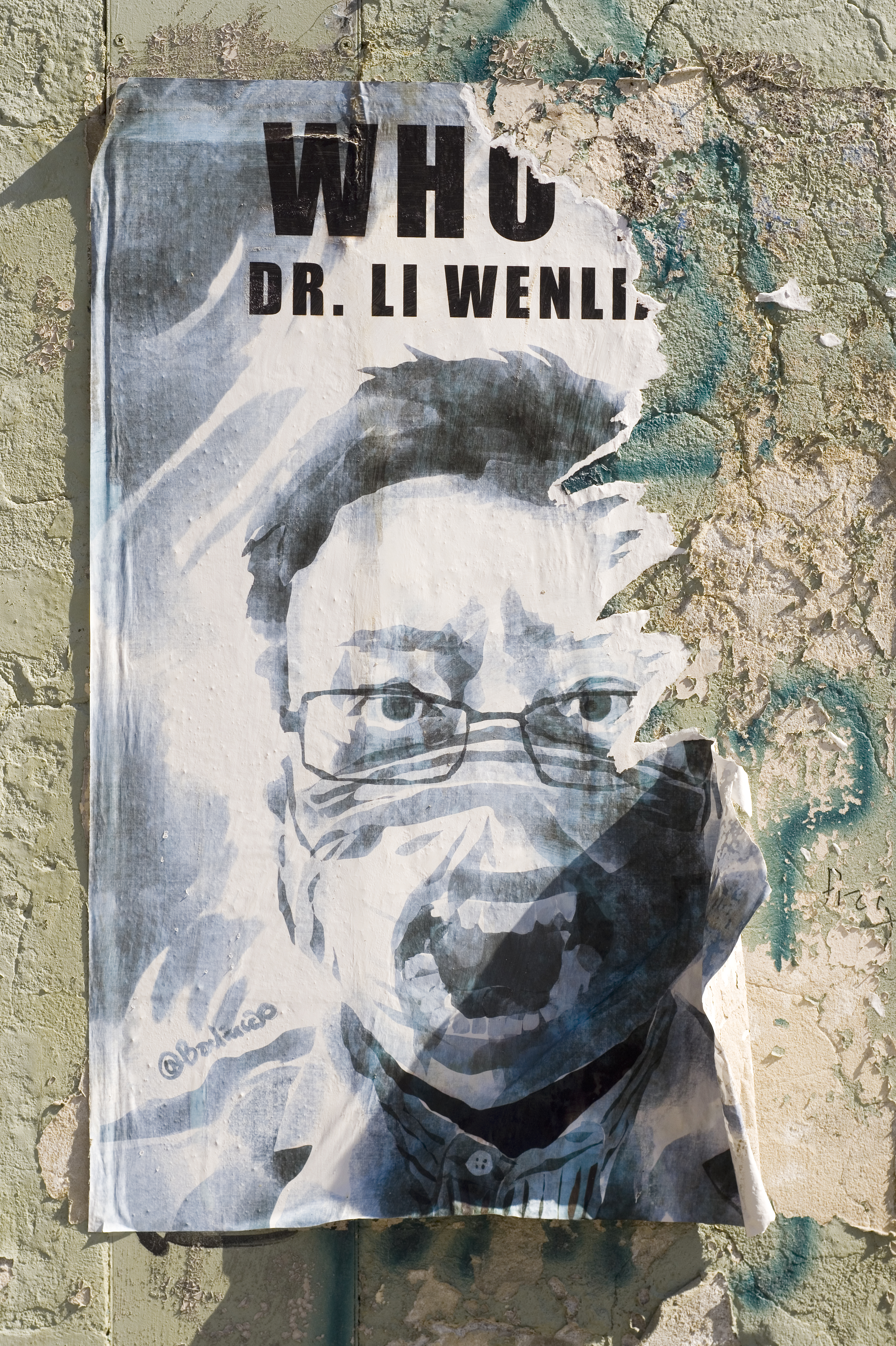 Partially damaged picture of Dr. Li Wenliang on the wall poster.